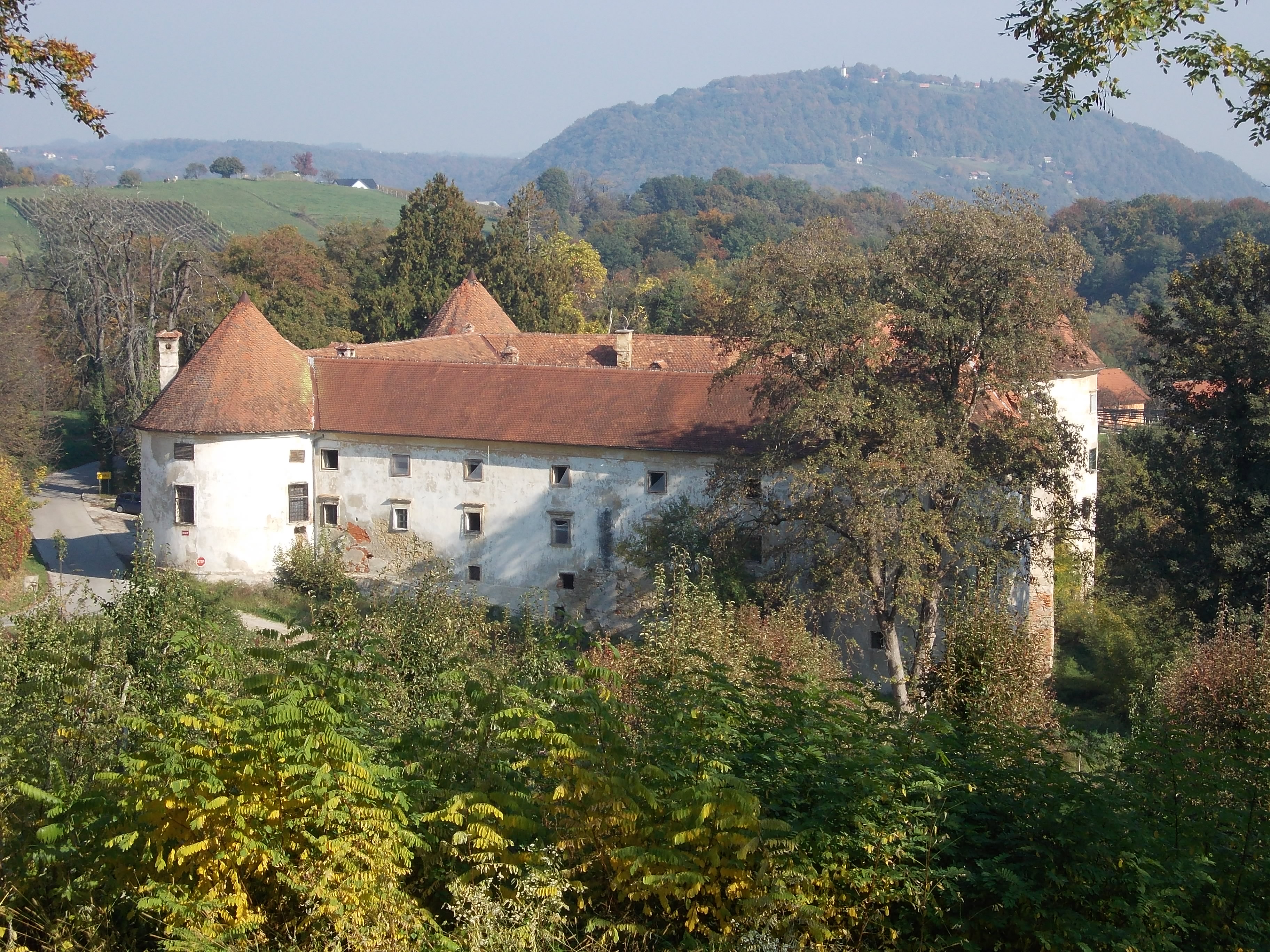 Leskovec Castle